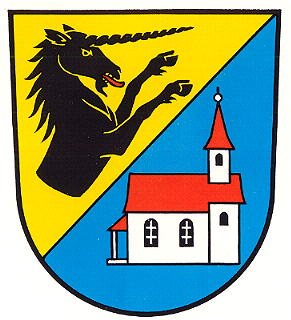 Coat of arms of the municipality of Ebnat-Kappel in the constituency of Toggenburg, canton of St. Gallen, Switzerland. Blazon: Per bend sinister Or a Semi Unicorn couped rampant langued Gules and Azure a Chapel Argent roofed Gules.